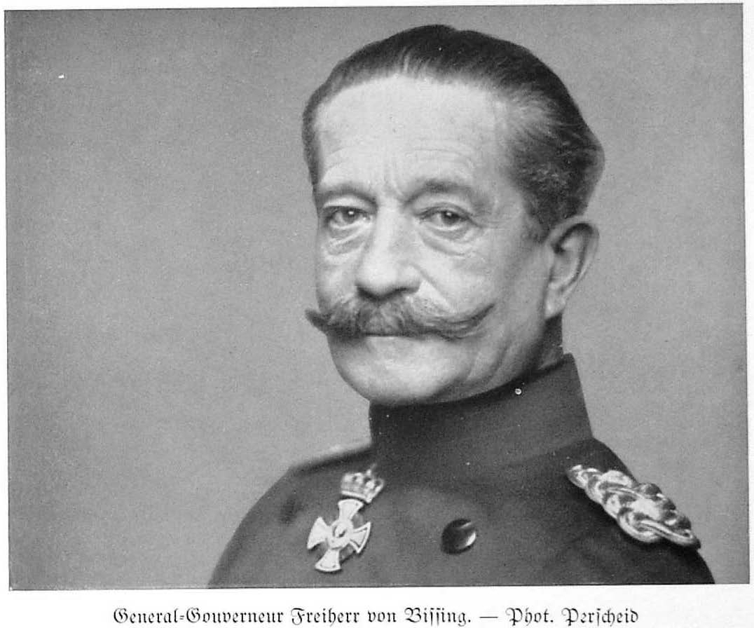 Portrait photography of Moritz Ferdinand von Bissing (1844-1917), 1914–1917 Governor General of German occupied Belgium